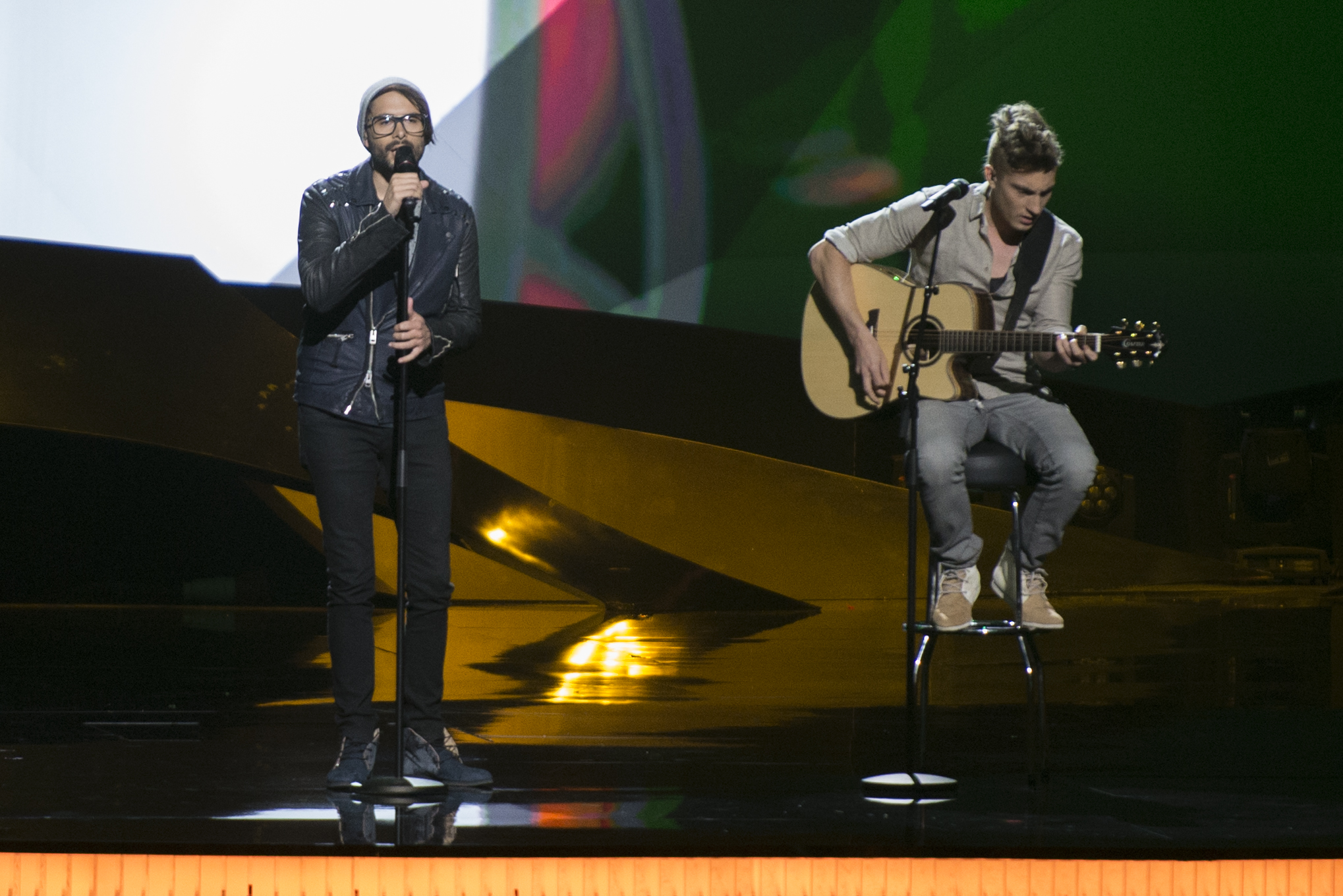 ByeAlex representing Hungary with the song "Kedvesem" (Zoohacker Remix) during the second dress rehearsal of the second semi final of the Eurovision Song Contest 2013 in Malmö. (Help translate this text)